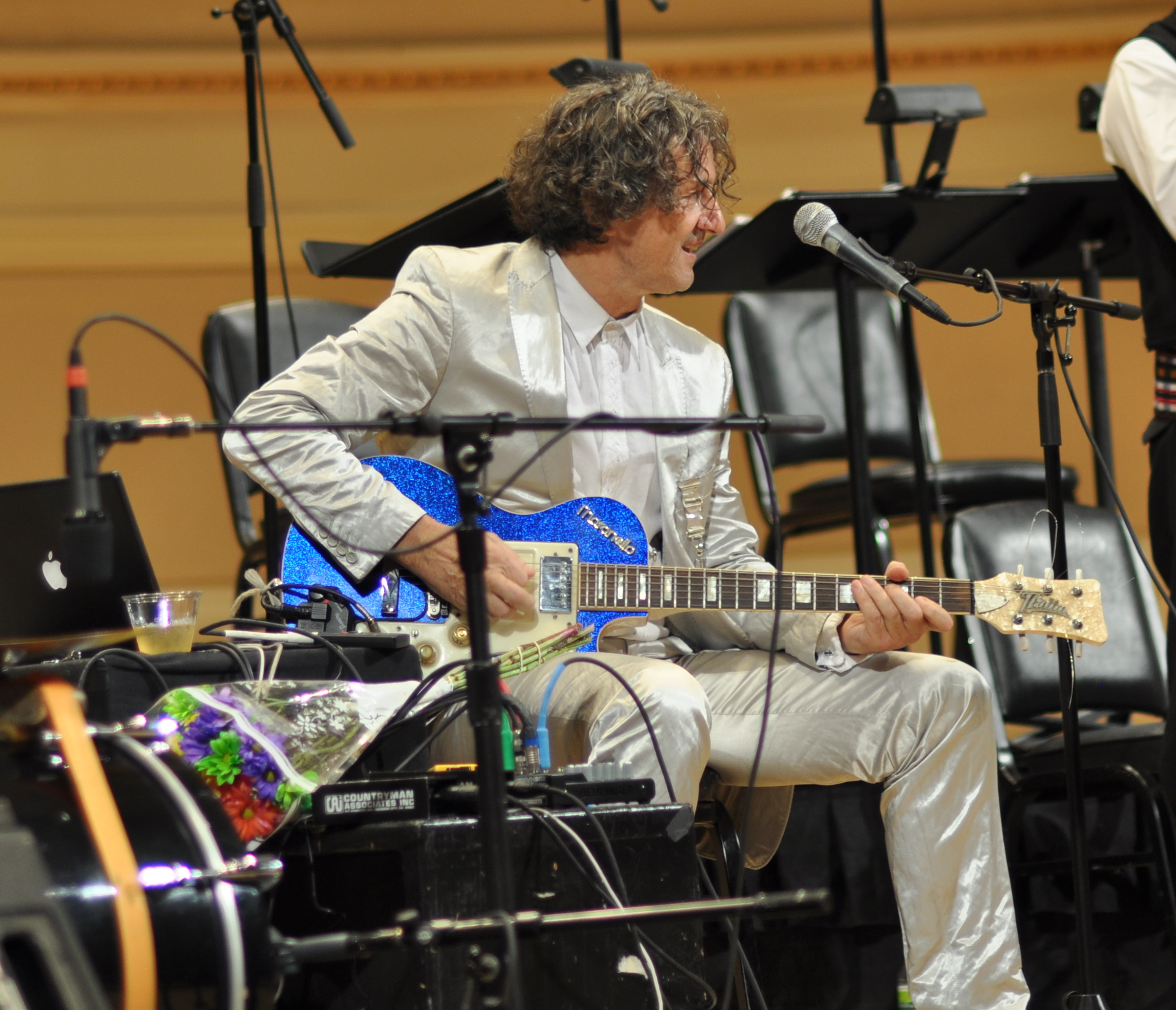 Serbian composer Goran Bregovic, performing at Carnegie Hall, New York, NY, USA